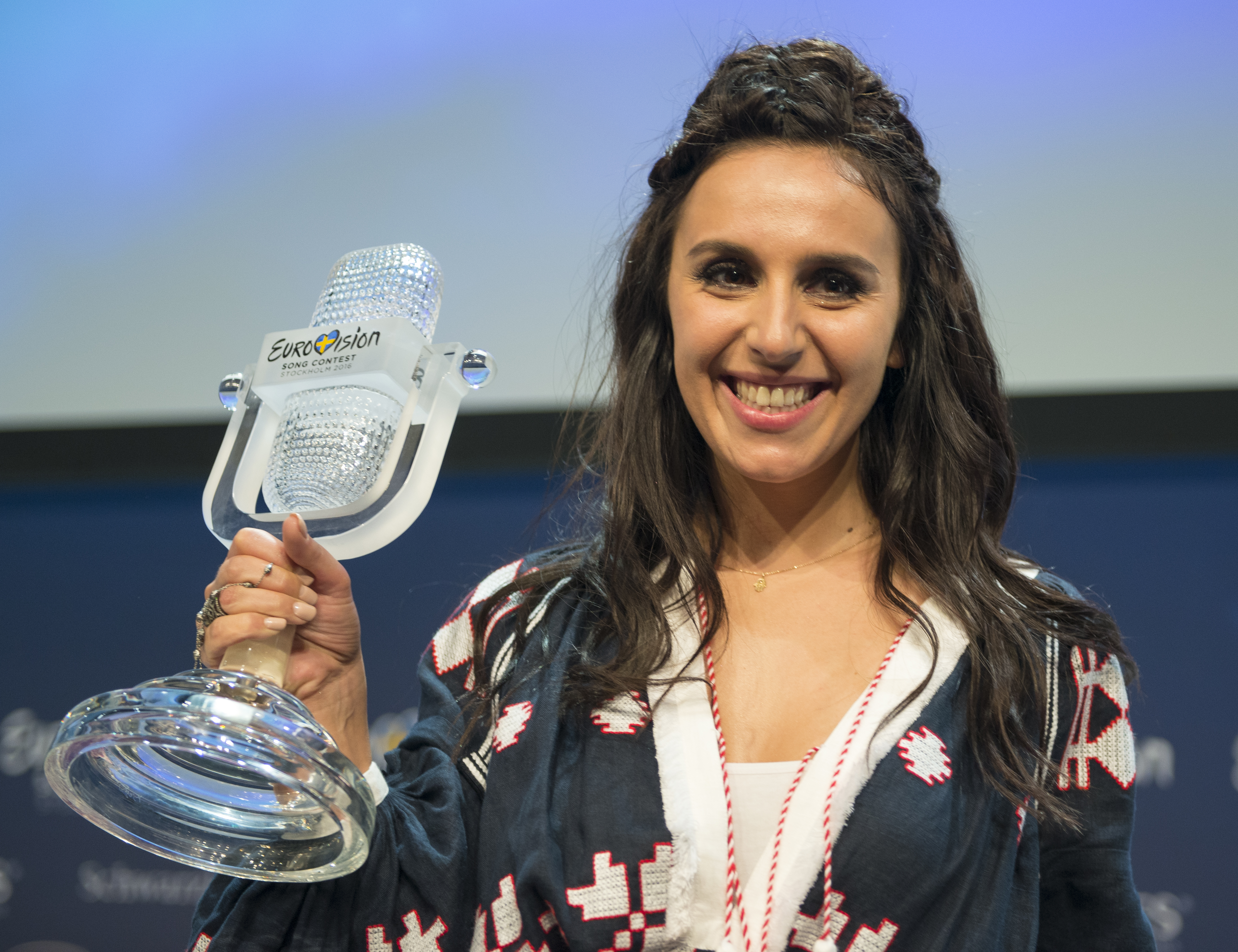 Jamala at the winners press conference, right after winning the Eurovision Song Contest 2016 in Stockholm. (Help translate this text)